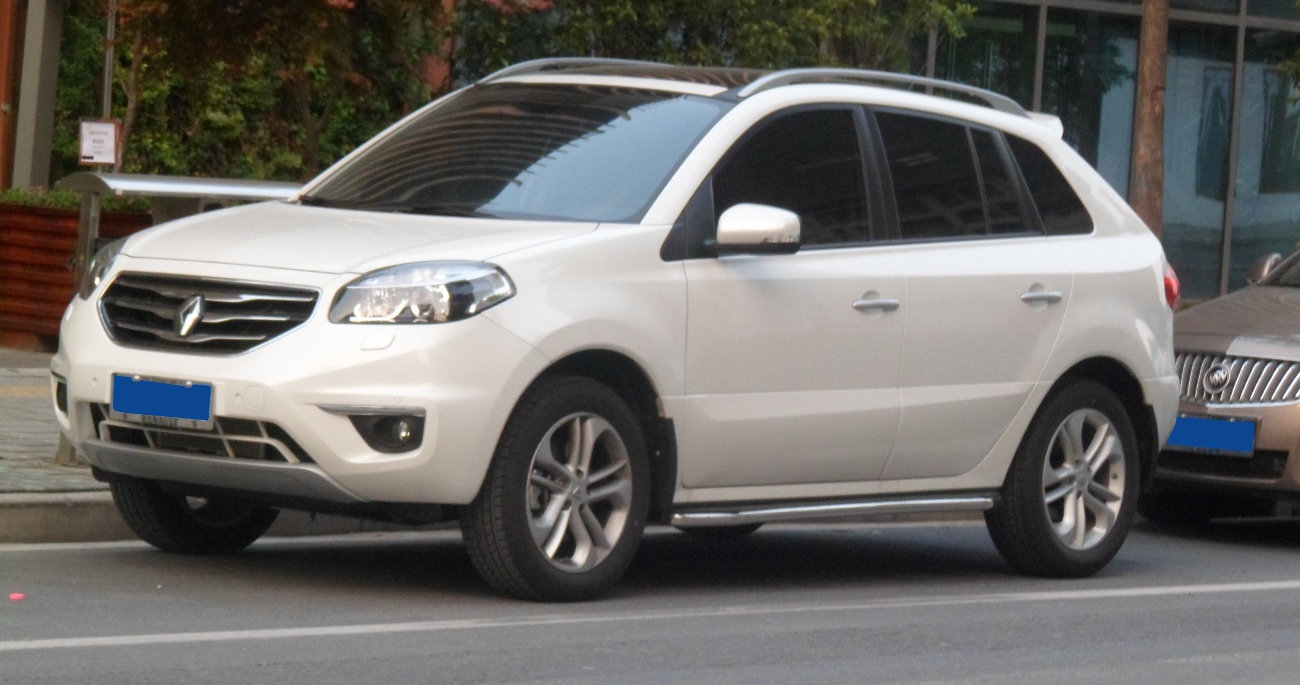 Renault Koleos photographed in Shanghai, China.